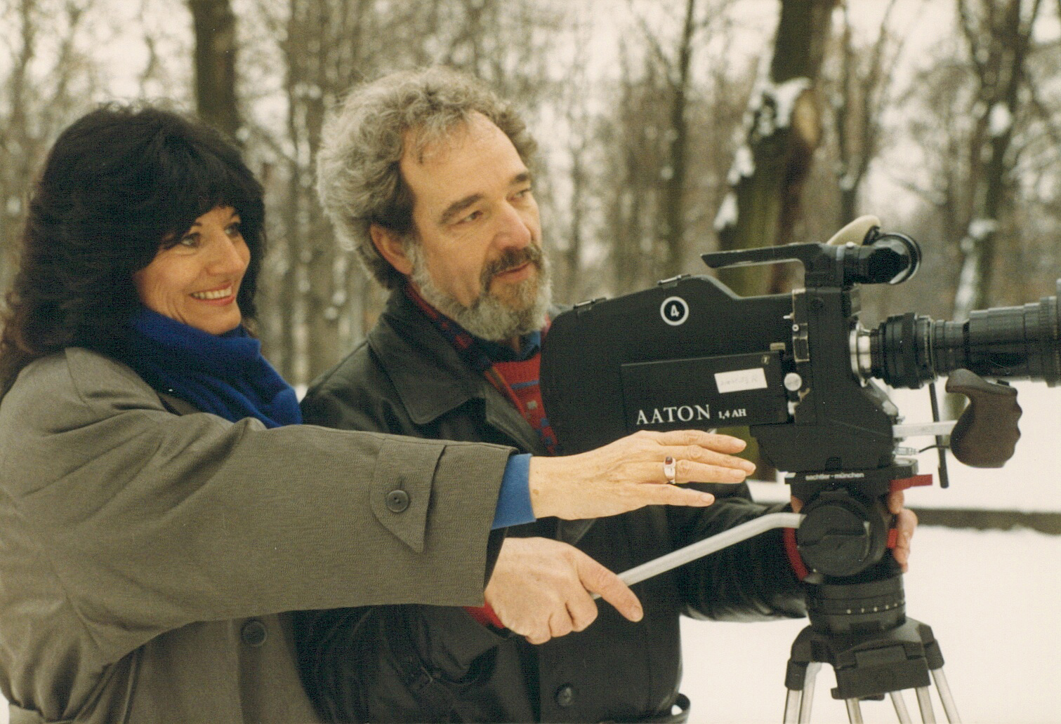 Cameraman Konrad Wickler, Director Katja Raganelli working on a documentary filming with an Aaton 16mm camera